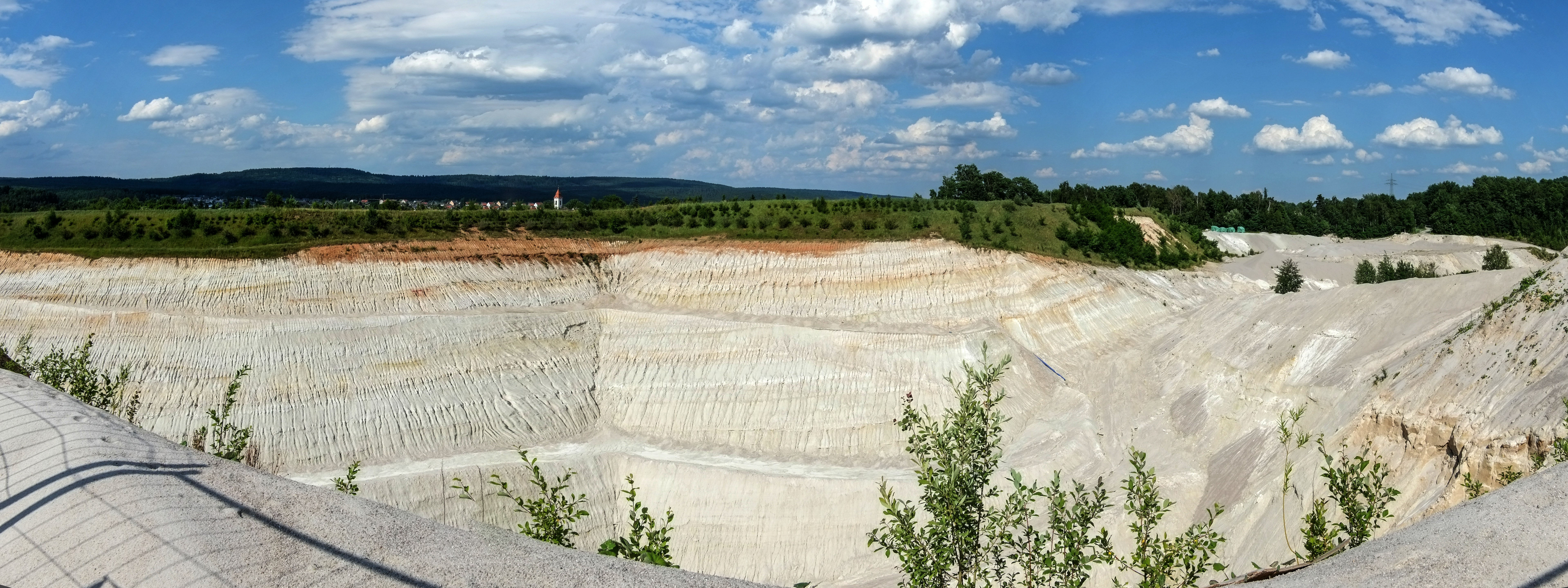 Kaolin mine, Schnaittenbach, district Amberg-Sulzbach, Bavaria, Germany